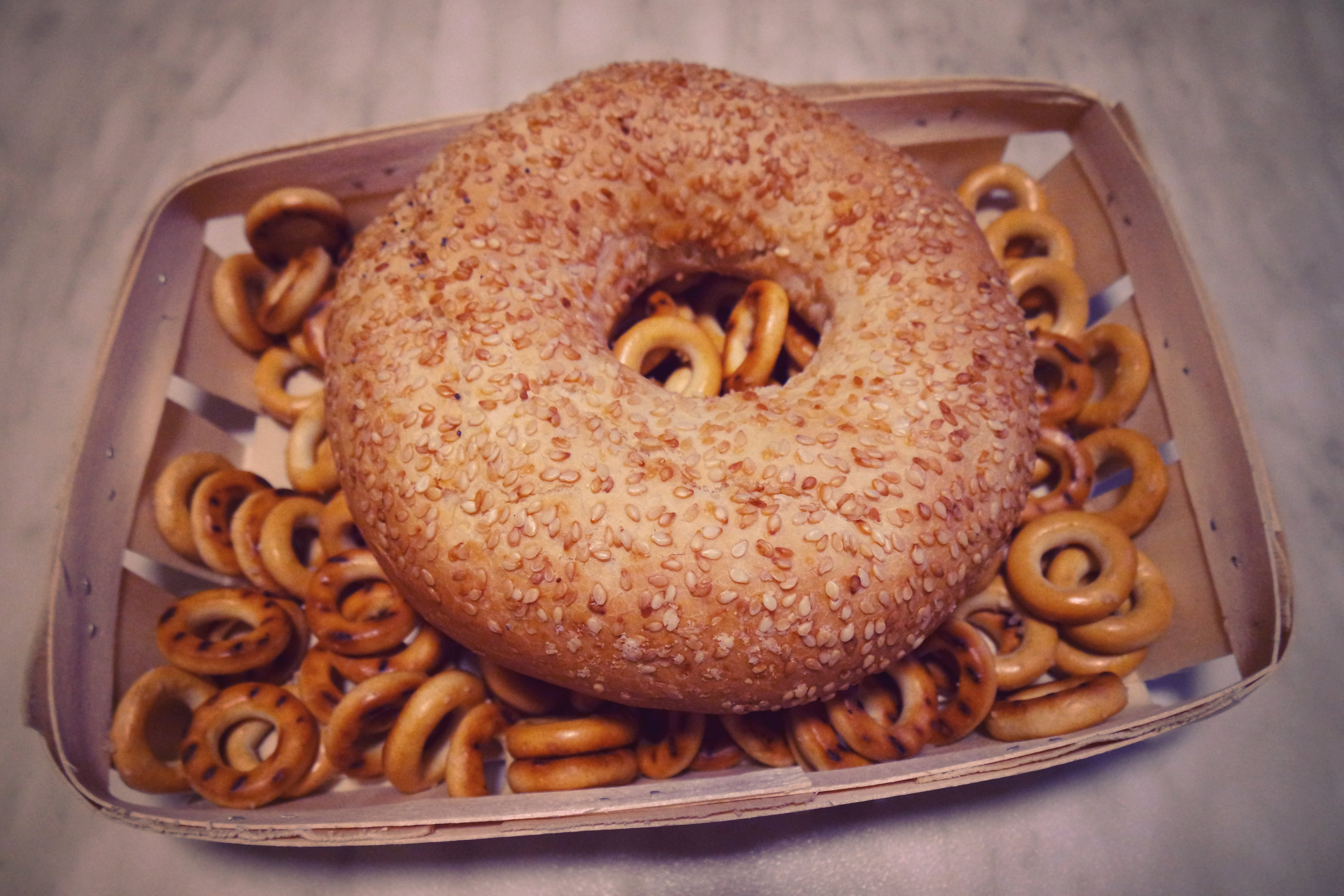 Largest and smallest baranki-type products: bublik (100 g, 13.5 cm) and sushki mini (2 cm)